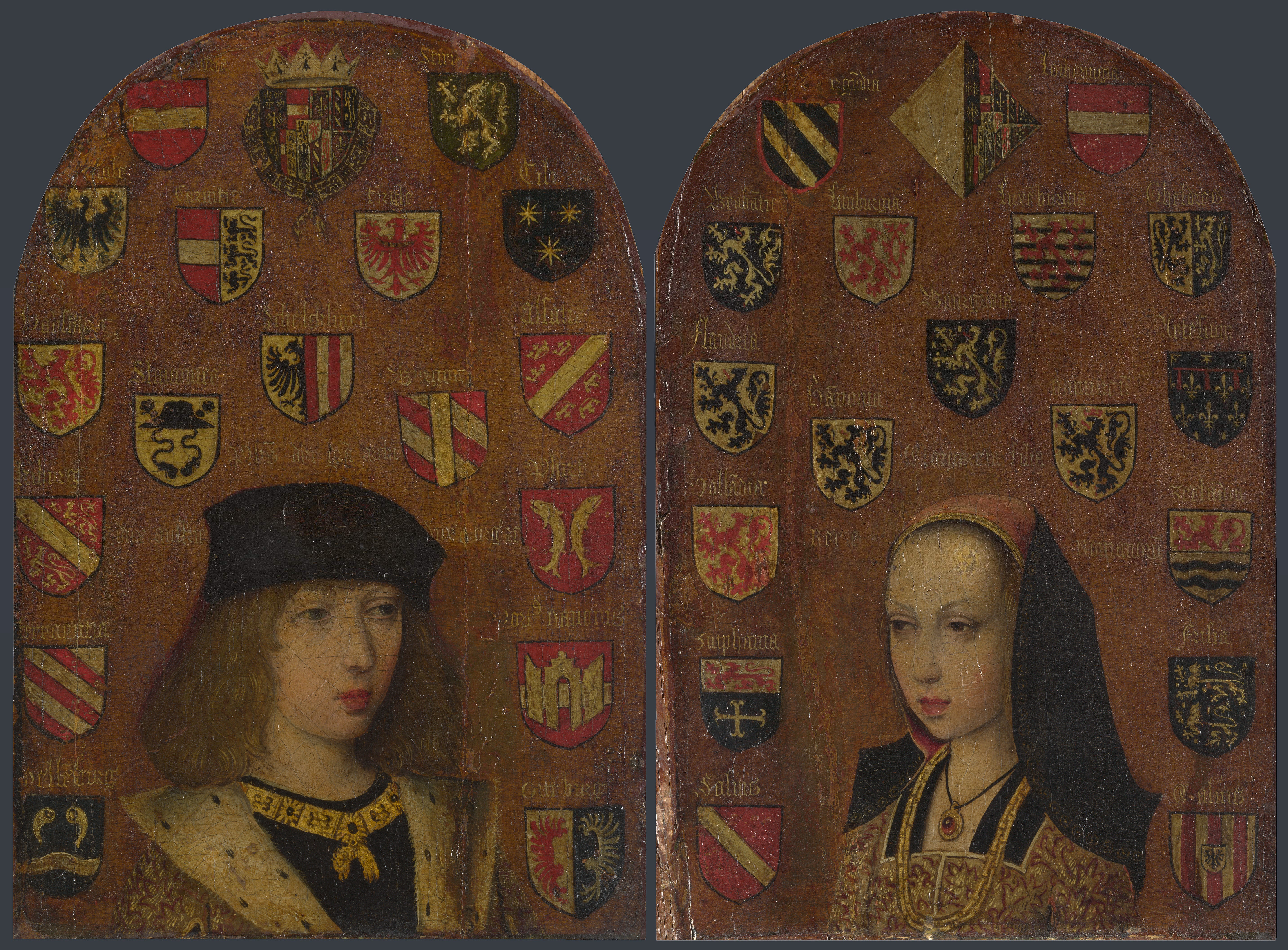 King Philipp I. the Handsome at the age of 16 and his sister Margarete (1480 - 1530) at the age of 14, who became Regent of the Netherlands. Philip is wearing the collar of the Golden Fleece. His arms are depicted at the top of this panel, the other coats of arms are of territories which belonged to the House of Austria. From the arms and inscriptions it can be established that this diptych was painted in about 1493-5. This is confirmed by a diptych of the same sitters at Schloss Ambras, on the frame of which their ages are written as 16 and 14, so dating it to about 1494. The commission of the Schloss Ambras picture and the present painting was perhaps connected with a proposed double marriage into the Spanish royal house. Diptychon